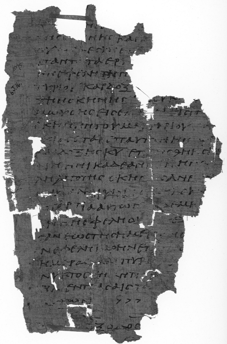 Papyrus Oxyrhynchus 1075 - British Library Papyrus 2053 recto - Book of Exodus 40